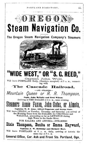 Listing in Portland, Oregon directory for Oregon Steam Navigation Company, circa 1875